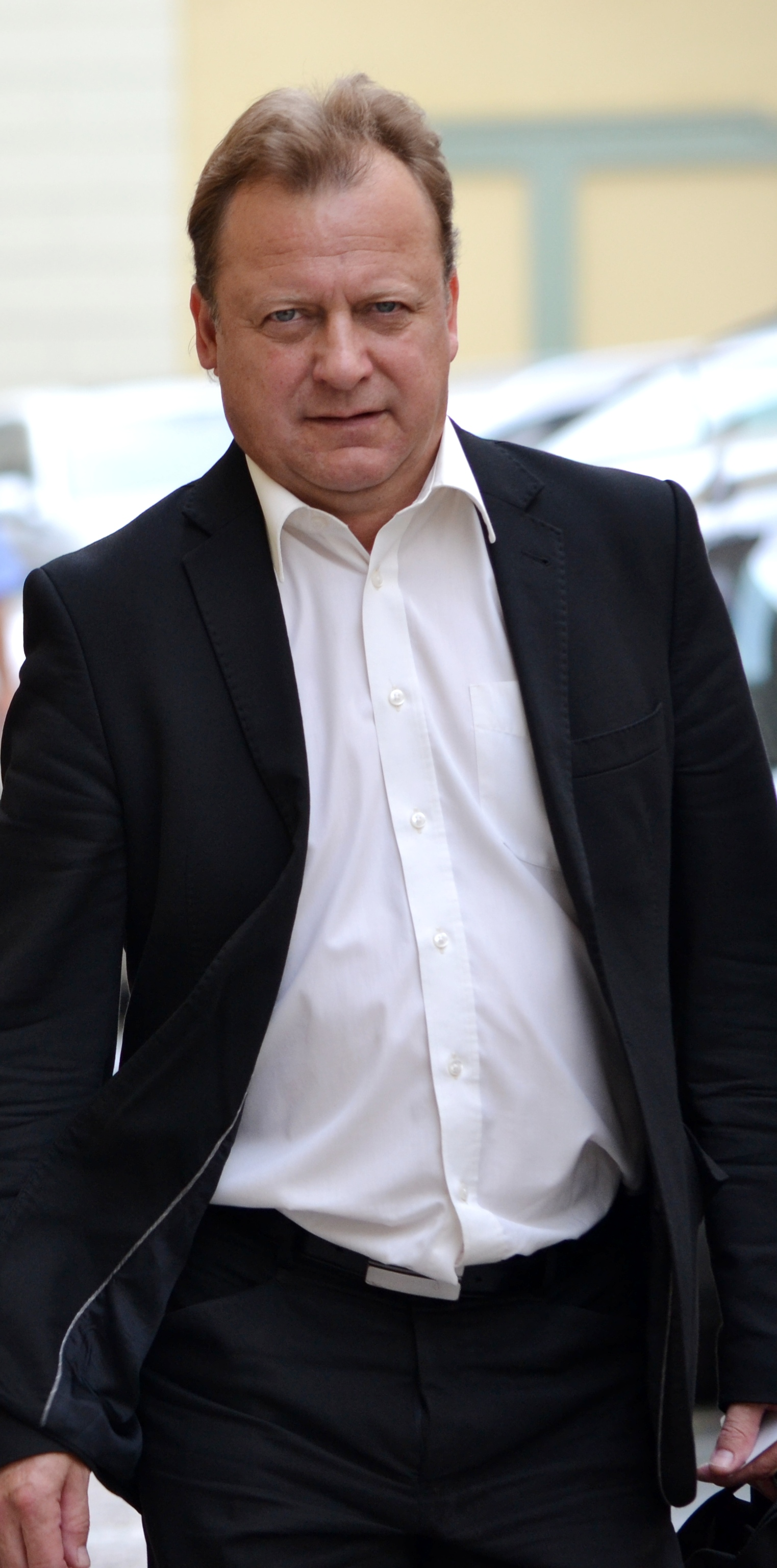 Pavel Ploc, Member of the Czech Parliament